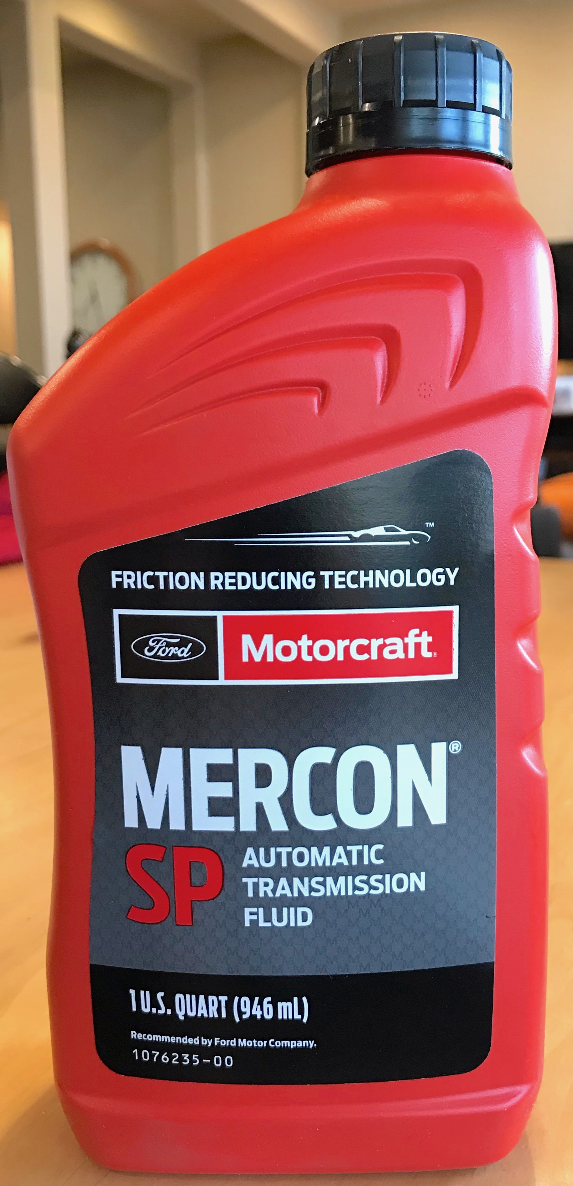 Mercon SP ATF